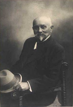 Peter Lauridsen (1846-1923), Danish historian